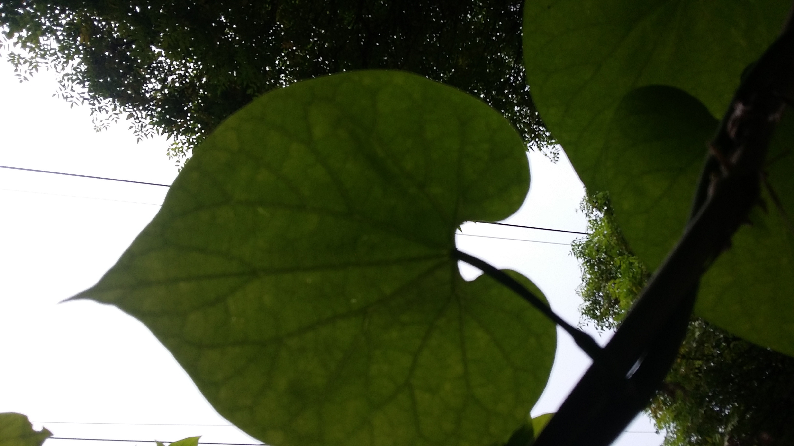 veins of leaves 2 ਪੰਜਾਬੀ: ਪਤਿਆਂ ਦੀਆਂ ਨਾੜੀਆਂ ੨